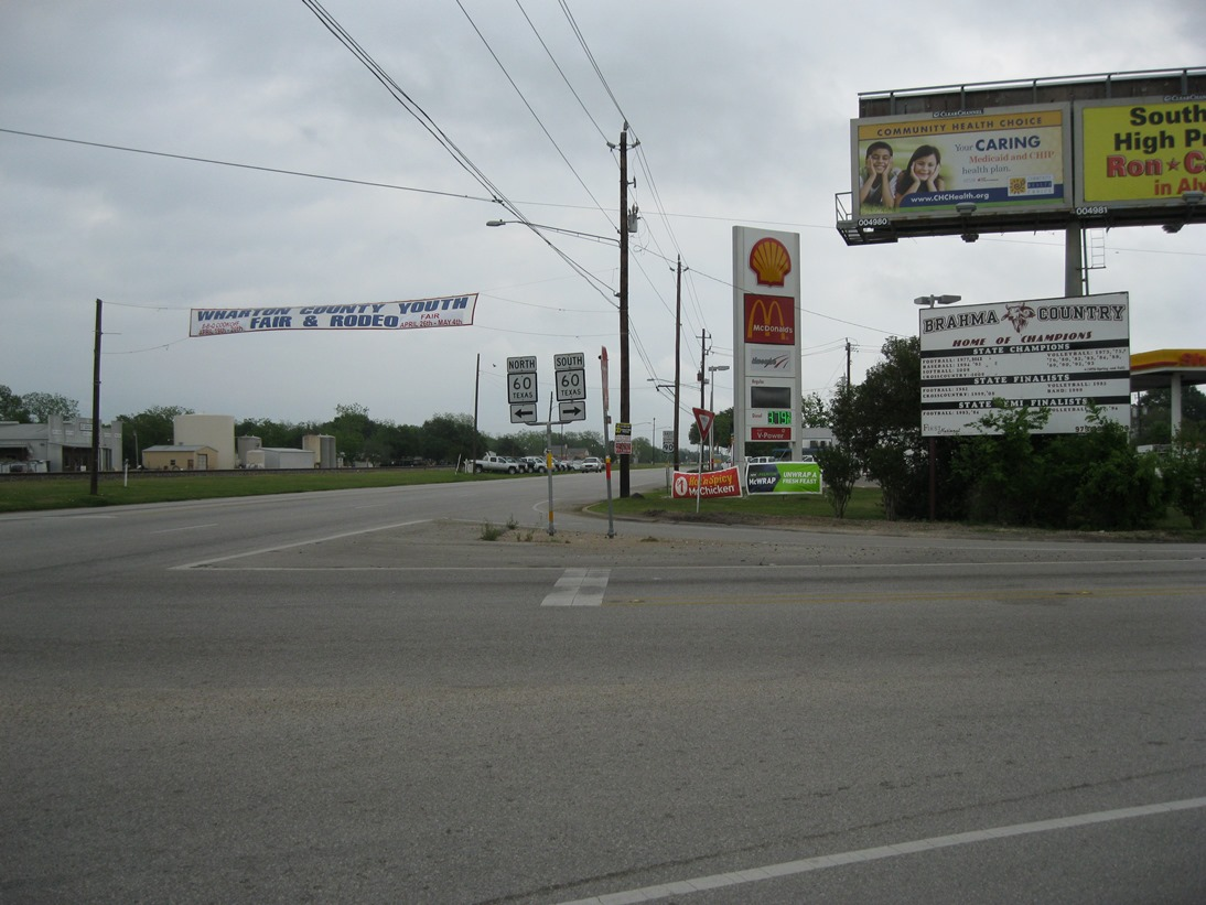 The intersection of US 90A and State Highway 60 in East Bernard, TX. Brahma Country sign proclaims the high school's football prowess. View is to the east.